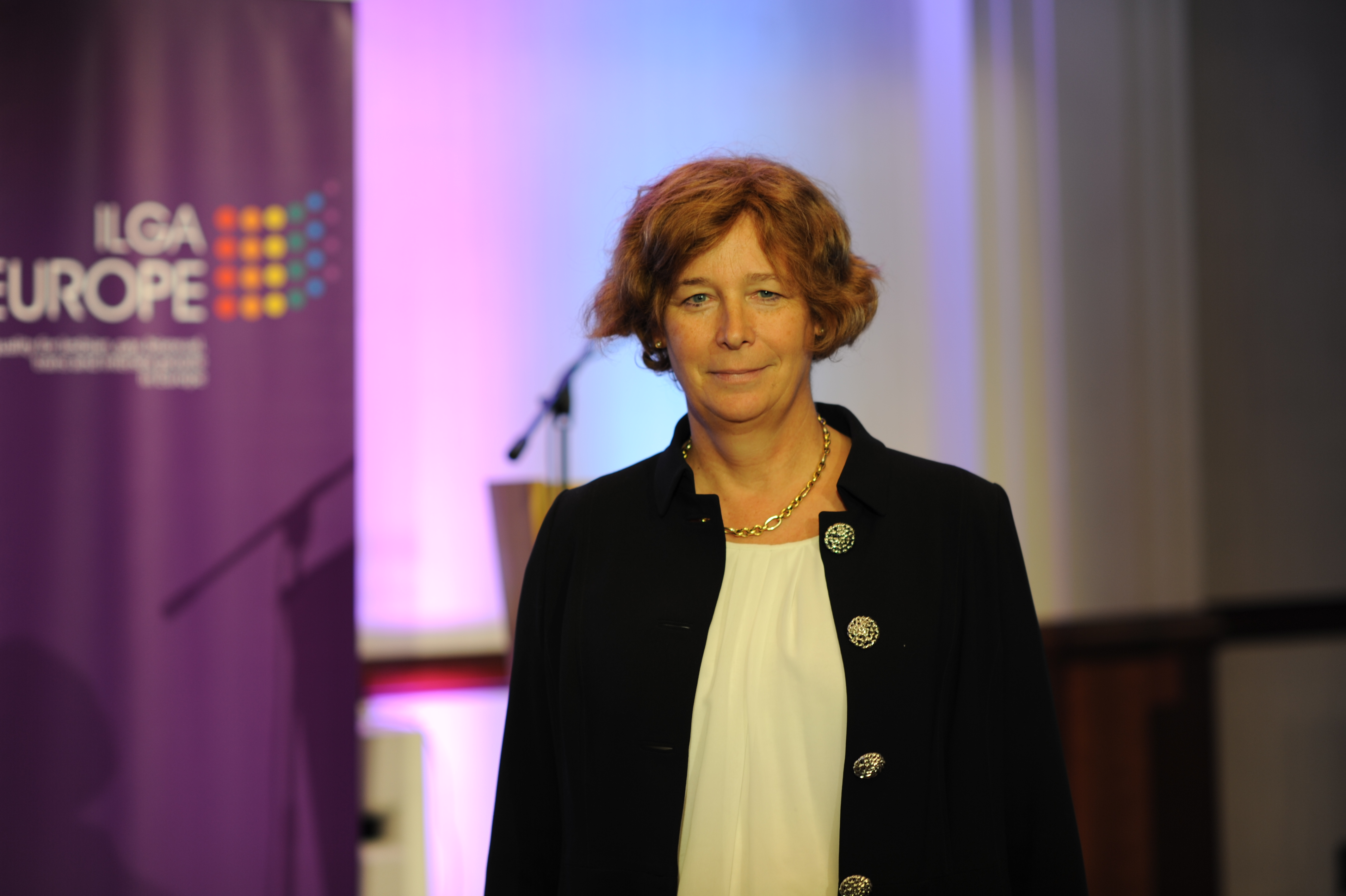 Petra de Sutter at ILGA conference 2018 Political Town Hall